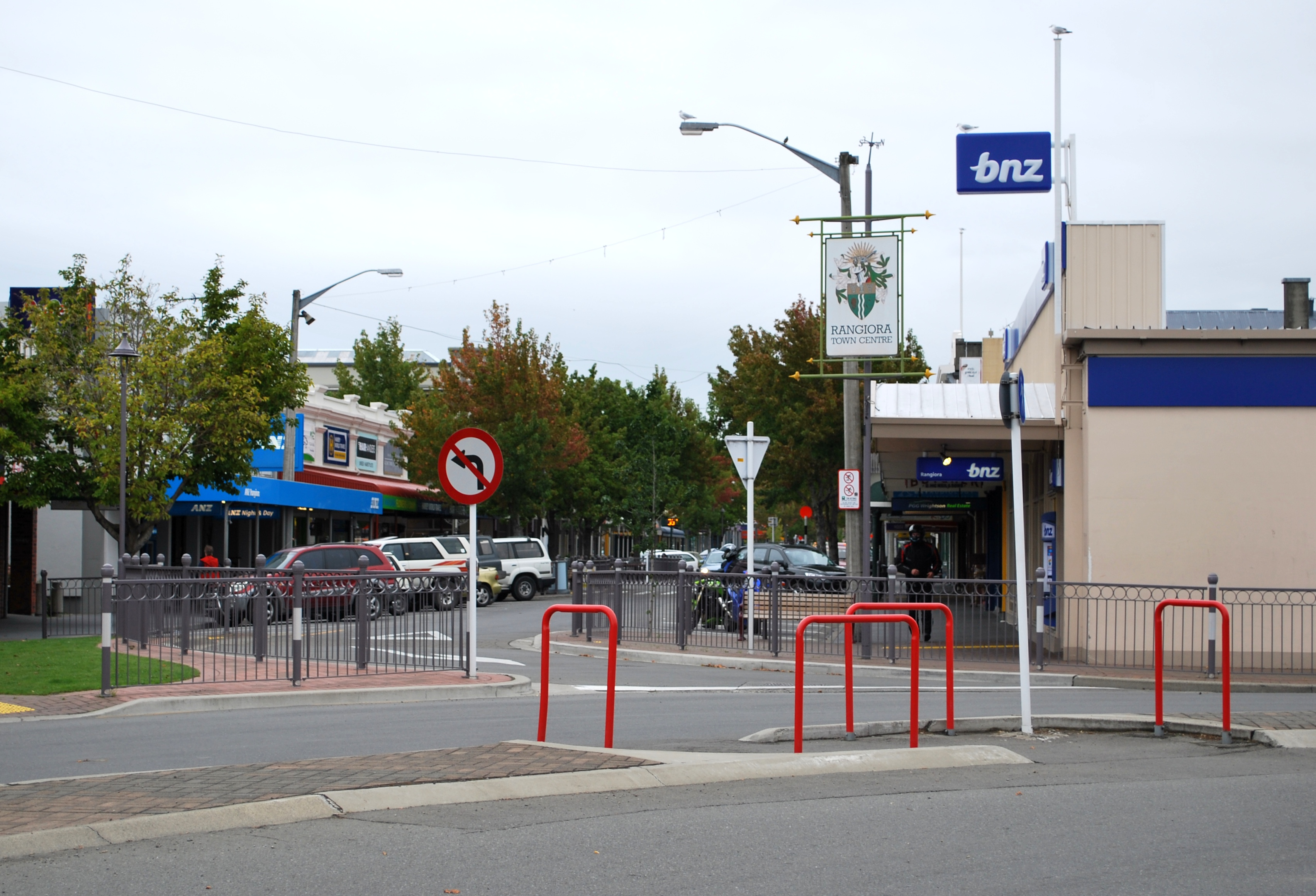 Town centre of Rangiora, New Zealand